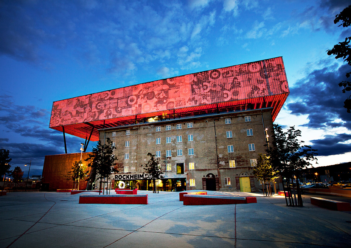 Rockheim. The Norwegian national museum of popular music.